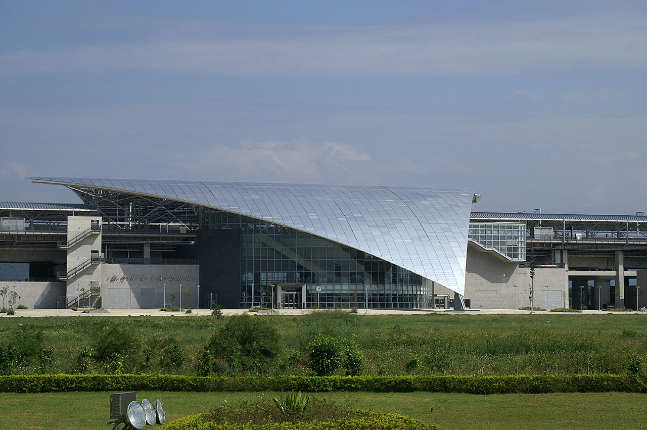 Hsinchu Station, Taiwan HSR. Bân-lâm-gú: Tâi-oân Ko-thih ê Sin-tik Tshia-tsām. 臺灣高鐵的新竹車站。